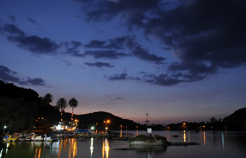 The Sacred Nakki Lake is the centre of attraction of Mount Abu. It is an artificial lake created by a check dam to stop natural flow of water from the hills on both sides. The lake shines like a jewel after sunset.